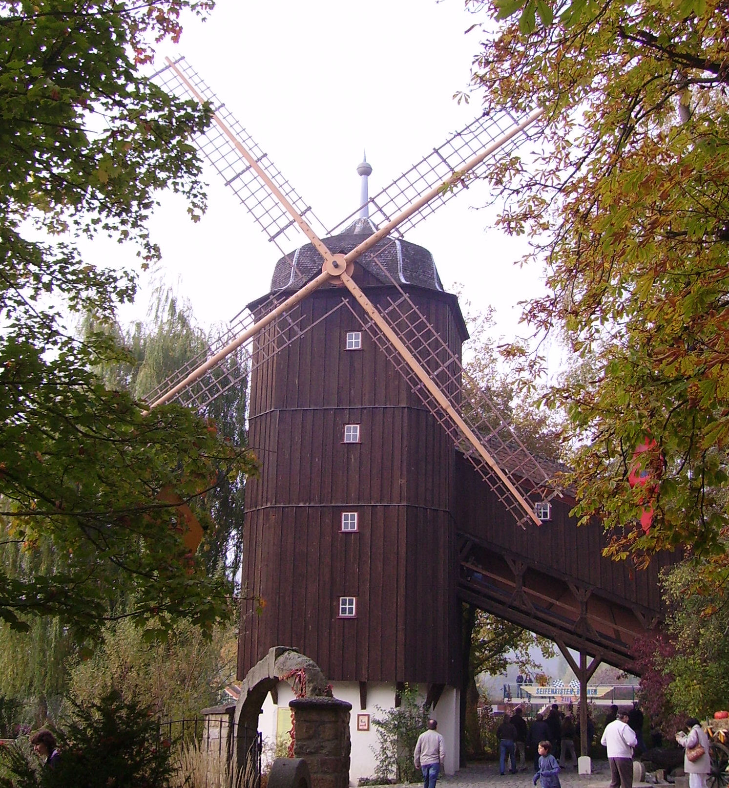 leisure park Tripsdrill near Cleebronn in southern Germany